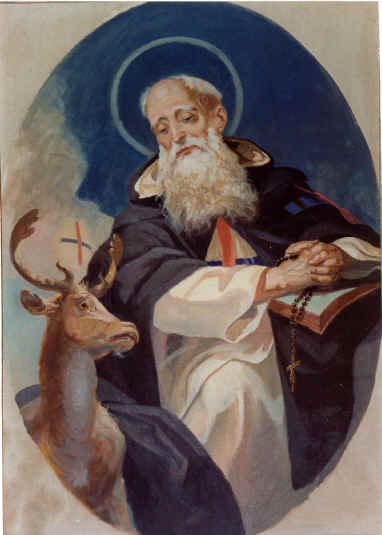 Sant Felix of Valois